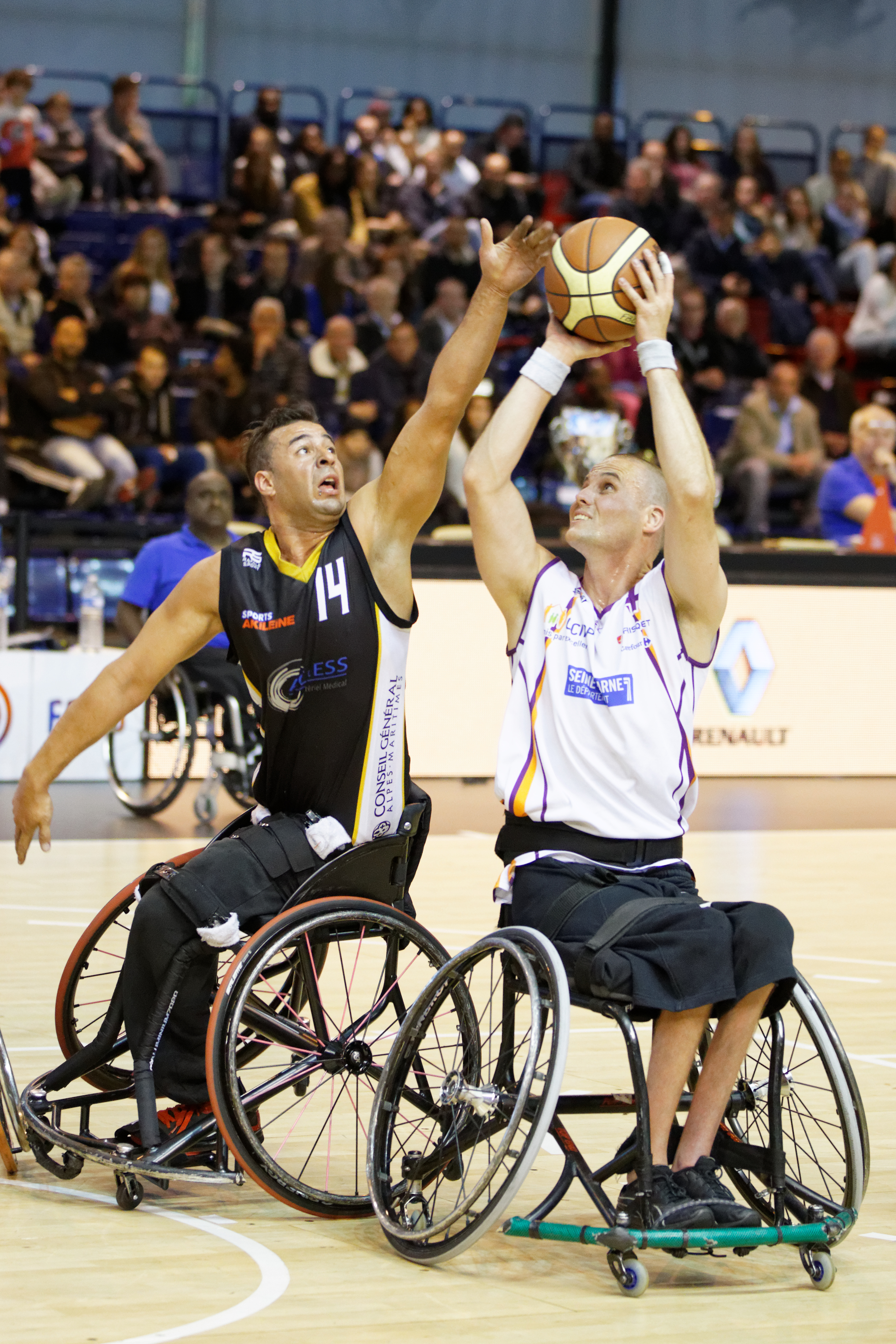 Final of the French Wheelchair Basketball Cup, CS Meaux vs Le Cannet, 1st May 2015.